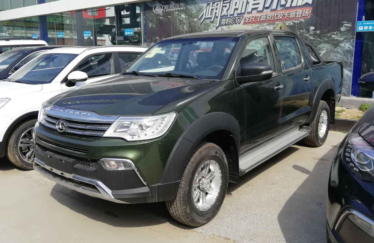 Leopaard CT7 photographed in Zhengzhou, Henan province, China.